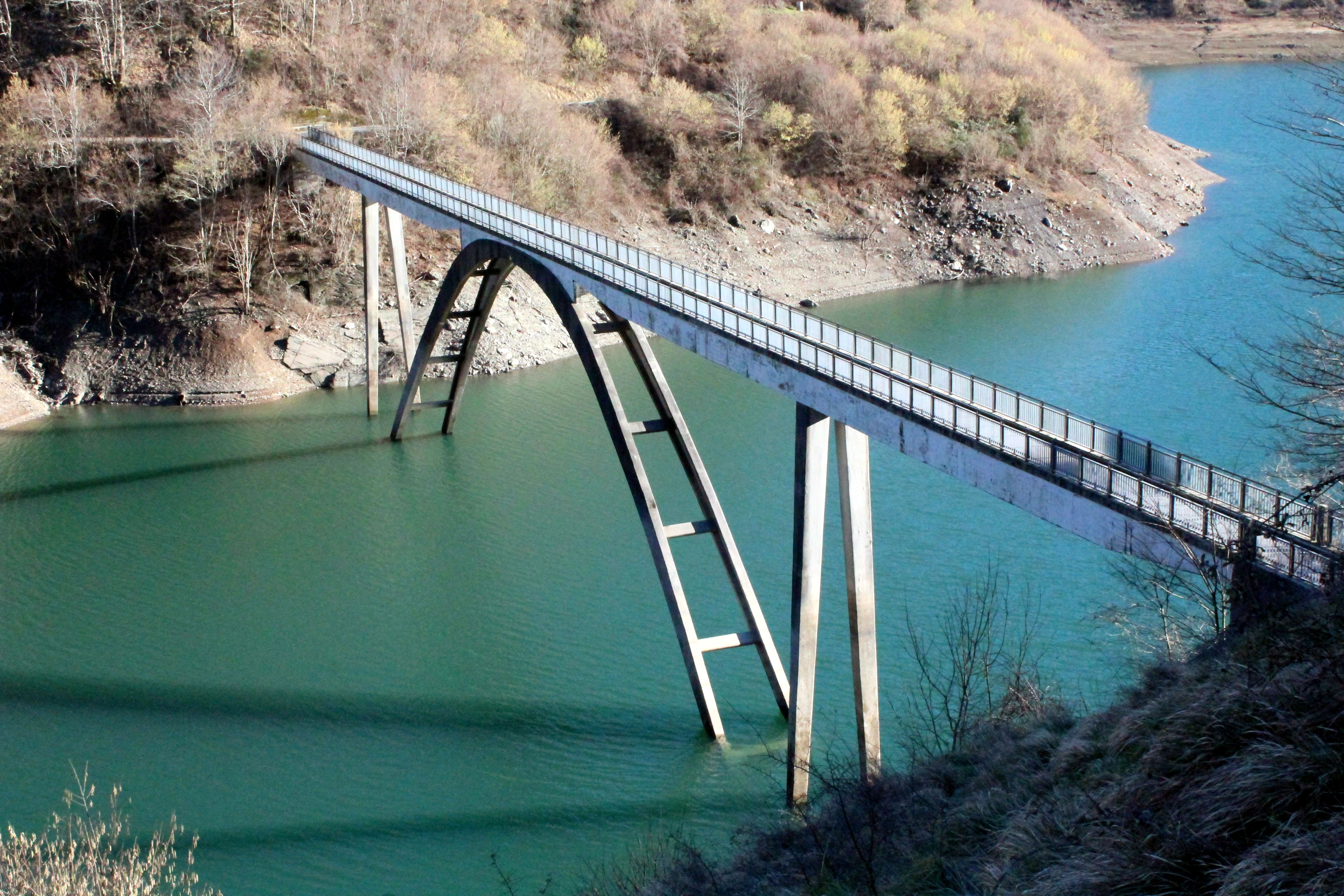 Bridge Ponte Morandi in Vaglio Sotto (Lago di Vagli), Garfagnana, Province of Lucca, Tuscany, Italy (seen from North)